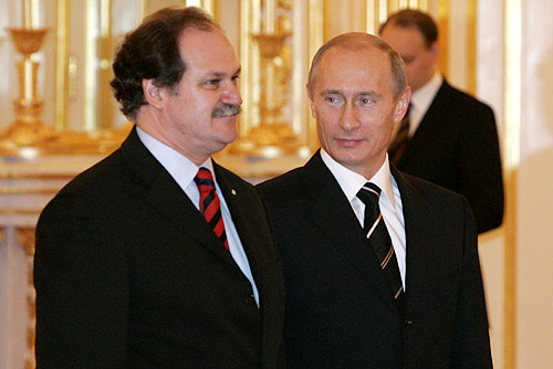 THE GRAND KREMLIN PALACE, MOSCOW. At the letters of credential presentation ceremony with Ambassador of Argentina to Russia Leopoldo Alfredo Bravo.